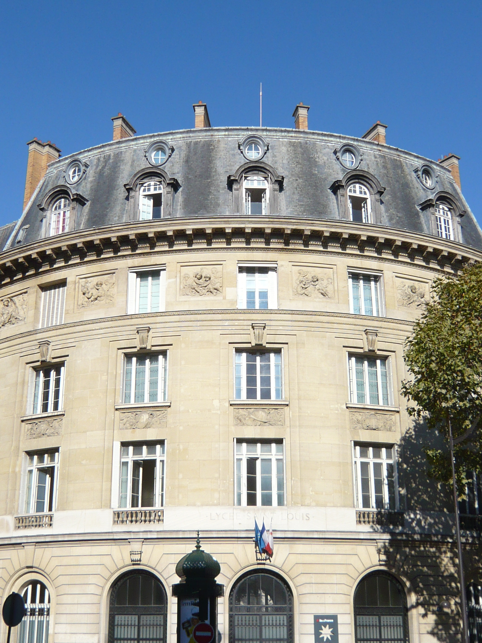 Front entrance of Lycée Saint-Louis (a sixth form college) in Paris, taken from the other side of boulevard Saint-Michel.